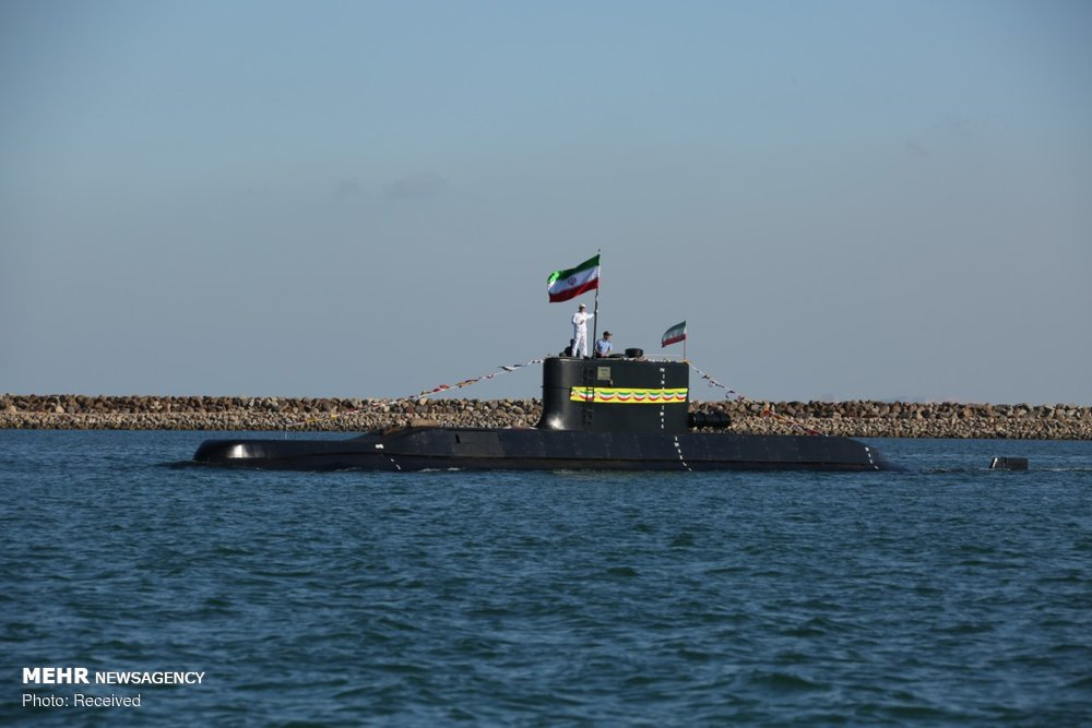 BANDAR ABBAS, Feb. 18 (MNA) – Home-made Fateh submarine joined the Iranian Army naval fleet on Sunday in the presence of President Hassan Rouhani in southern Iran.